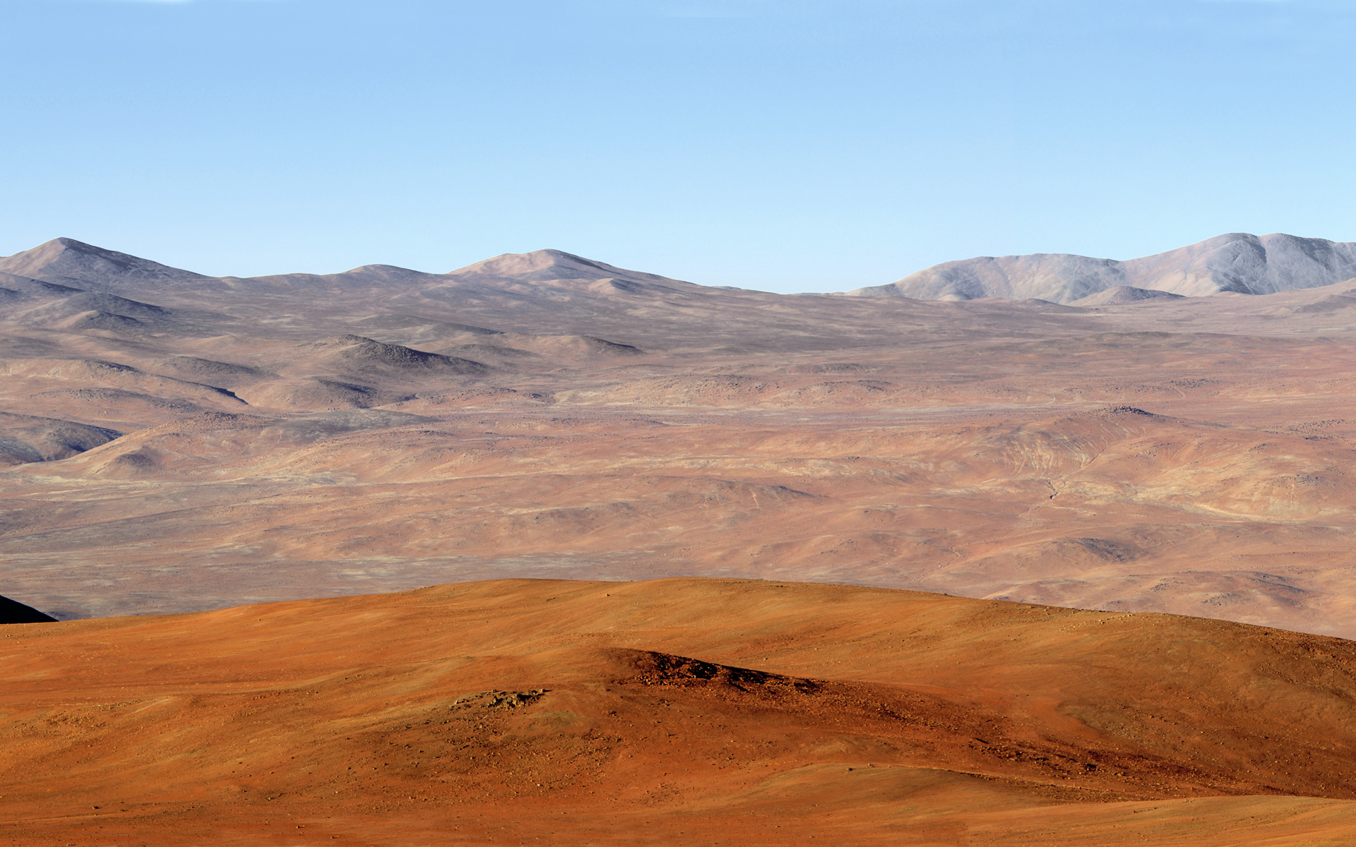 The above panorama shows a view of the Atacama Desert as seen from the ESO Paranal Observatory, home to the Very Large Telescope. To the right of the image, one can see the road leading to the summit of Cerro Armazones, a site located in Chile, and a possible home for the future European Extremely Large Telescope (E-ELT). The E-ELT programme office has studied half a dozen potential sites for the future E-ELT observatory, which, with its 40-metre-class diameter, will be the world’s biggest eye on the sky. Various aspects need to be considered in the site selection process. On the E-ELT Site Selection Advisory Committee’s final short list for the recommended site, Armazones is also the committee’s preferred site, because it has the best balance of sky quality across all aspects and can be operated in an integrated fashion with the existing Paranal Observatory.